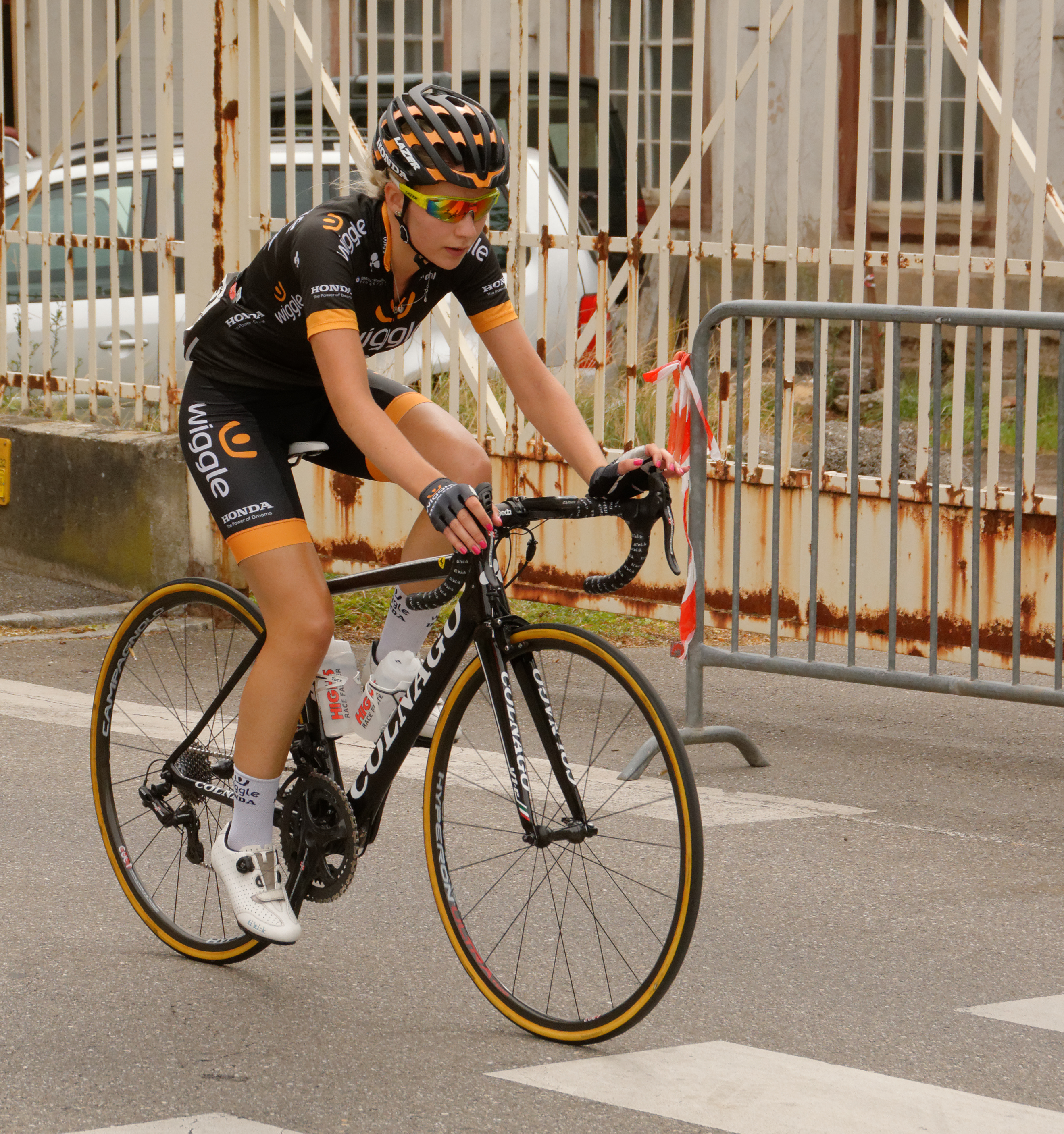 Personality rights warningAlthough this work is freely licensed or in the public domain, the person(s) shown may have rights that legally restrict certain re-uses unless those depicted consent to such uses. In these cases, a model release or other evidence of consent could protect you from infringement claims.